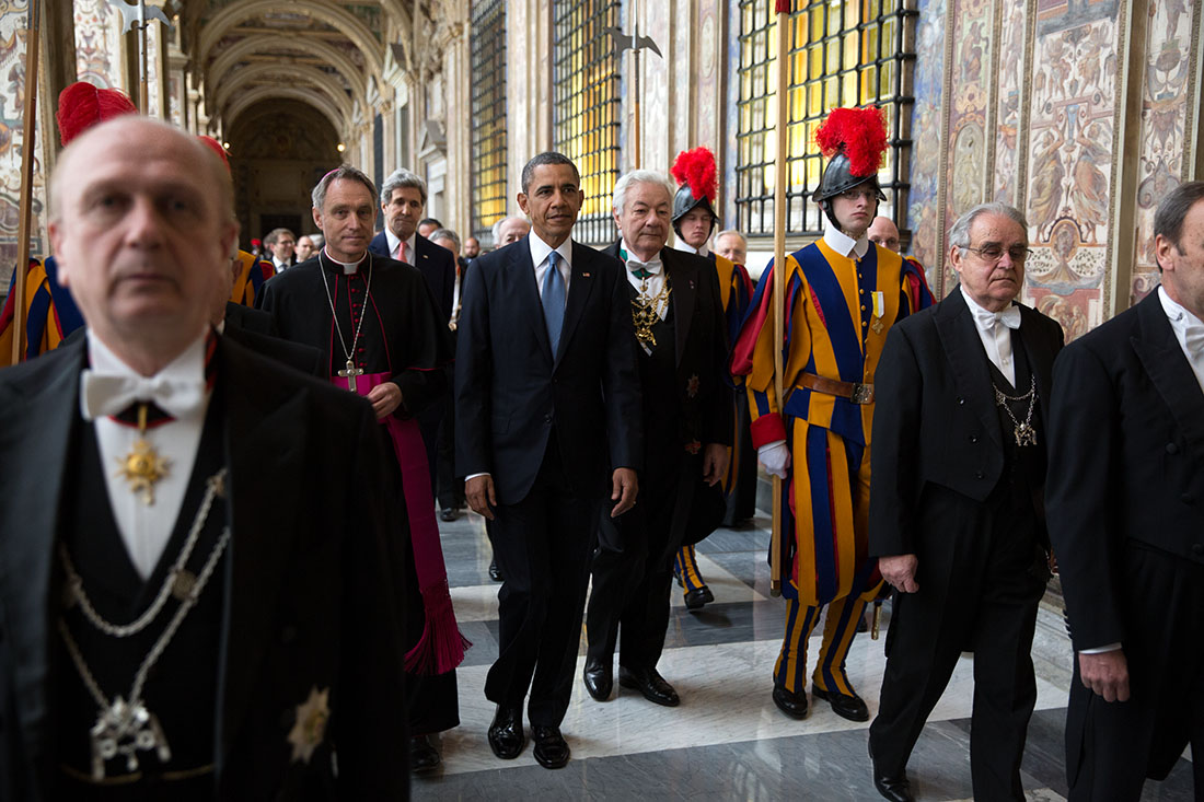 President Barack Obama is escorted through the Vatican for his meeting with Pope Francis on 27 March 2014 (with Archbishop Georg Gänswein on the left, and Secretary of State John Kerry in the background).